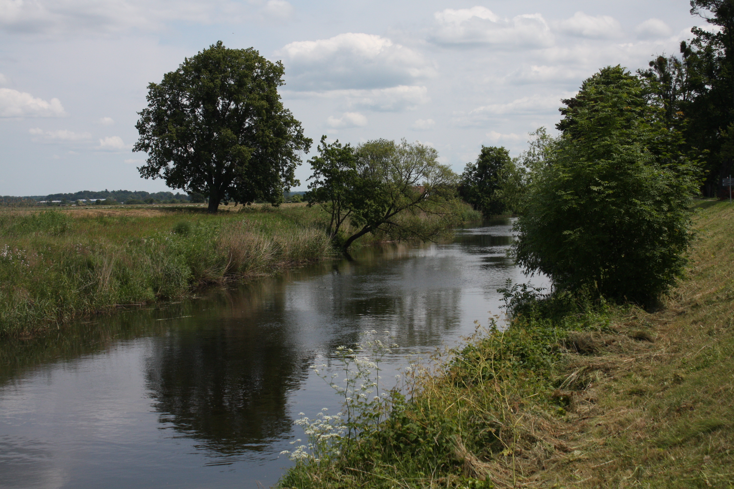 Braniewo